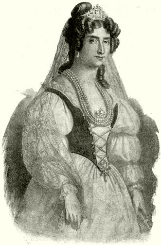 Countess Julianna Festetics de Tolna (1753–1824), wife of Count Ferenc Széchényi de Sárvár and Felsővidék in Hungarian court gown.